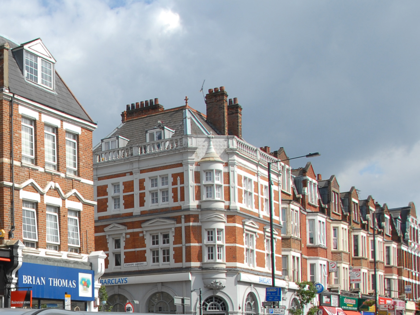 own work